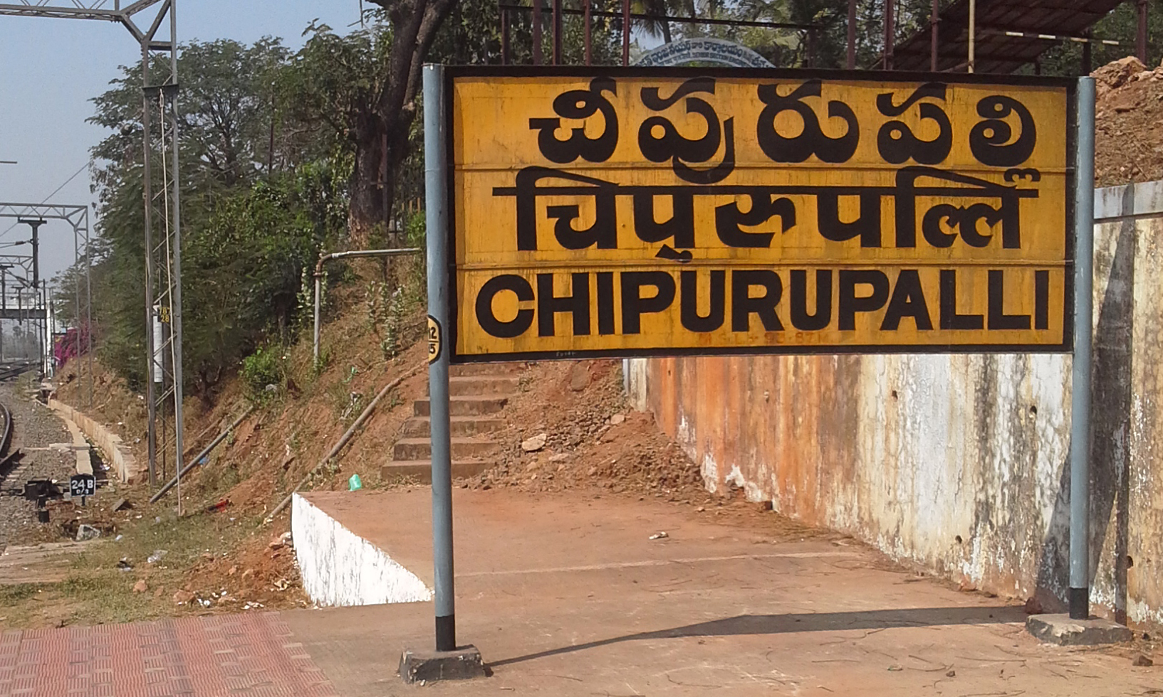 Name board of Cheepurupalli Railway station